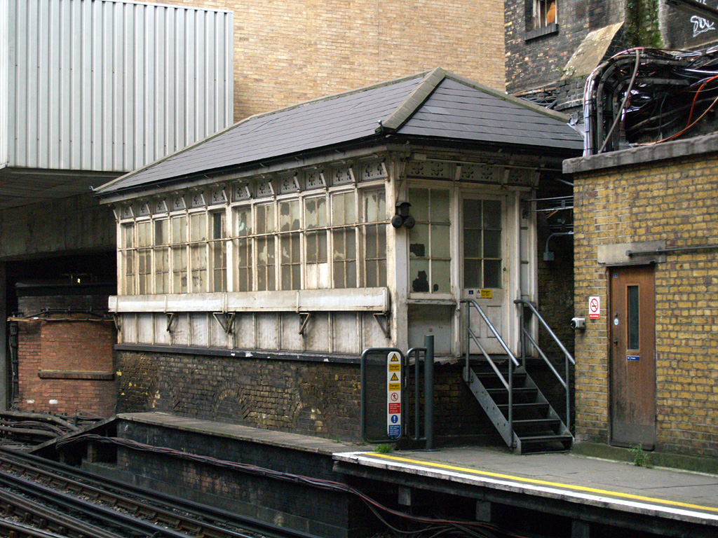 Liverpool Street Interlocking Machine Room at west end of platform 1 at Farringdon station on the London Underground. Saturday 18th October 2008 Liverpool Street signal box was a Metropolitan Railway non standard design built by McKenzie and Holland which opened 1st February 1875 fitted with a 40 lever frame. A replacement 20 lever Railway Signal Company Tappet frame was installed in 1910 and a further replacement 15 lever reconditioned Westinghouse B frame controlled from a bush button desk was installed on 21st February 1954. The box was closed as a signal box, converted to an interlocking machine room and was renamed Liverpool Street Interlocking Machine Room on 16th November 1956. The interlocking machine room was controlled from Farringdon signal box until 25th March 2001 when control was transferred from Baker Street SCC